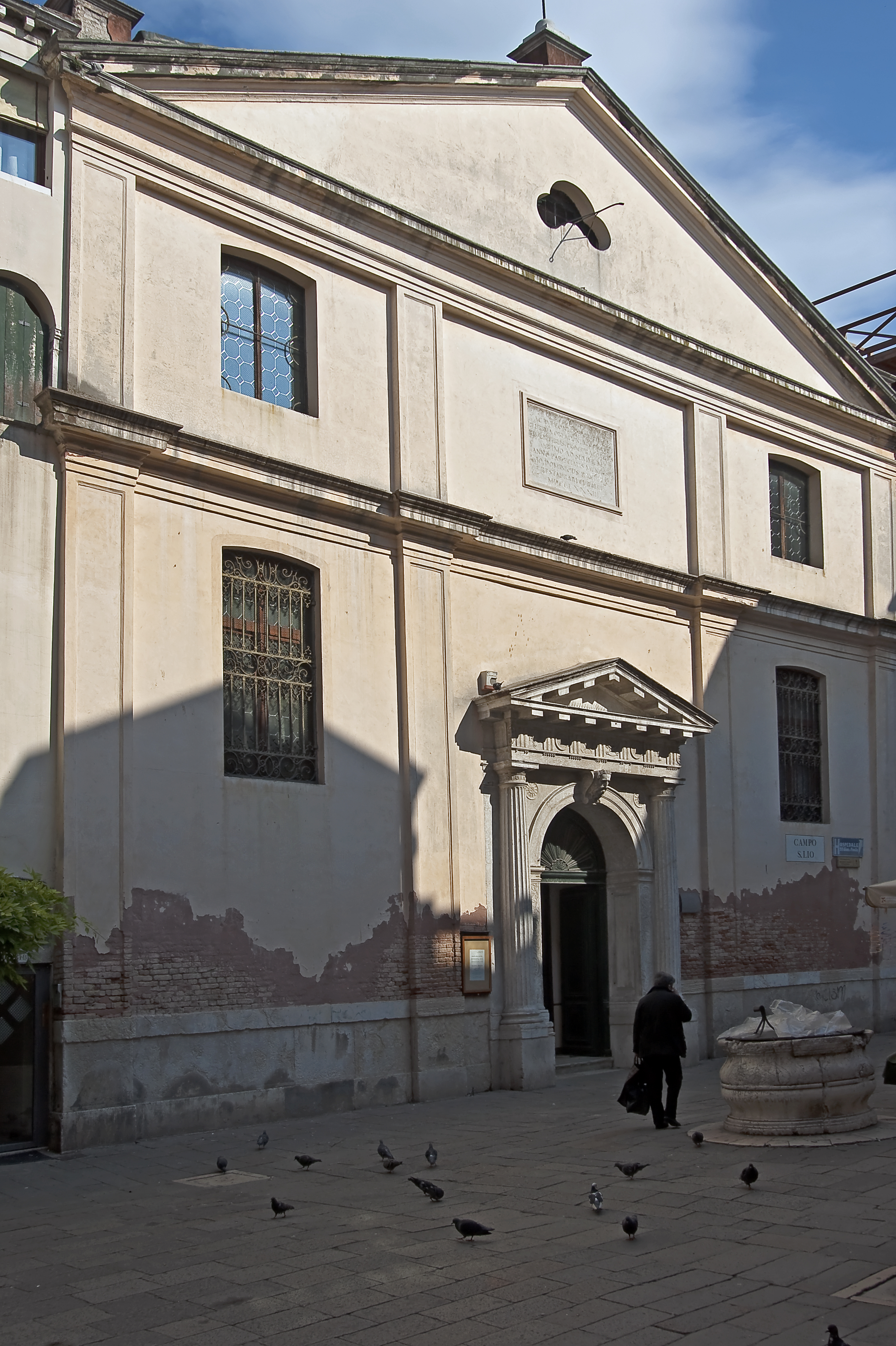 Church of San Lio in Venice Facade.